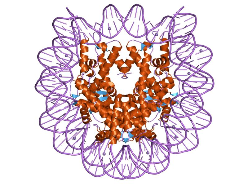 Cartoon representation of the molecular structure of protein registered with 1kx3 code.